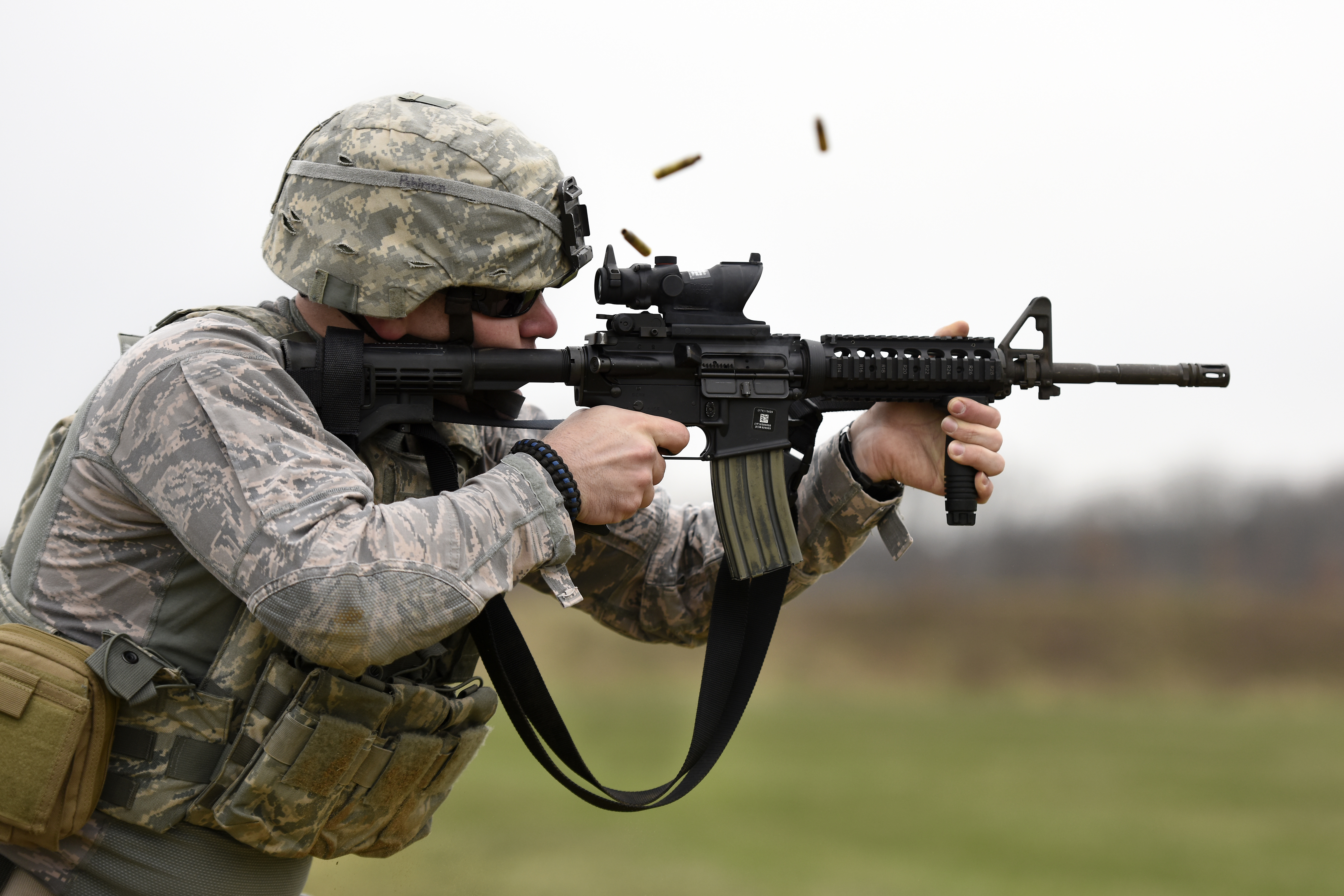 Senior Airman Benton Pohlman, a 180th Fighter Wing security forces specialist, Ohio Air National Guard, fires an M4 carbine rifle during target practice April 12, 2017, at the Fort Custer Training Center in Battle Creek, Mich. Weapons training allows Airmen to provide protection of the homeland and effective combat power to their combatant commander. (U.S. Air National Guard photo/Staff Sgt. Shane Hughes)